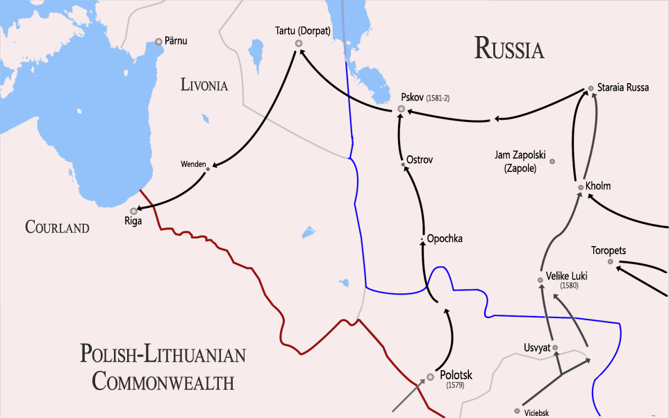 Map showing the campaigns in Livonia and Western Russia of Stefan Batory during the Livonian War